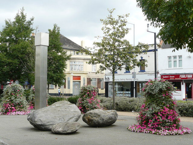 Thornton Heath Pond, Croydon, Surrey If geograph had been in existence back in 1953, the category for this location would have been "pond". Up until that time, the whole of this traffic island had been a pond. Back in the good old days, highwaymen used to be hanged from the gibbet beside this location; a practice which has, sadly, died out! After 1953, gardens and a small ornamental pond were built; there was also a not very attractive toilet block. An American musician friend (who might have been forgiven for not knowing the correct name for this location), referred to it as "the toilet roundabout" ..... but then she was American. As before, the pond became full of rubbish, and an eyesore. About 10 years ago, the current gardens were designed. Gone was the pond; in its place, a water feature consisting of three cascading towers (one can be seen to the left of picture). Unfortunately, the designer failed to take into account the fact that the wind blows. The water went everywhere apart from where it should have gone, and people avoided the gardens as a result. So; we finally reached today's situation, a garden with a dry water feature.